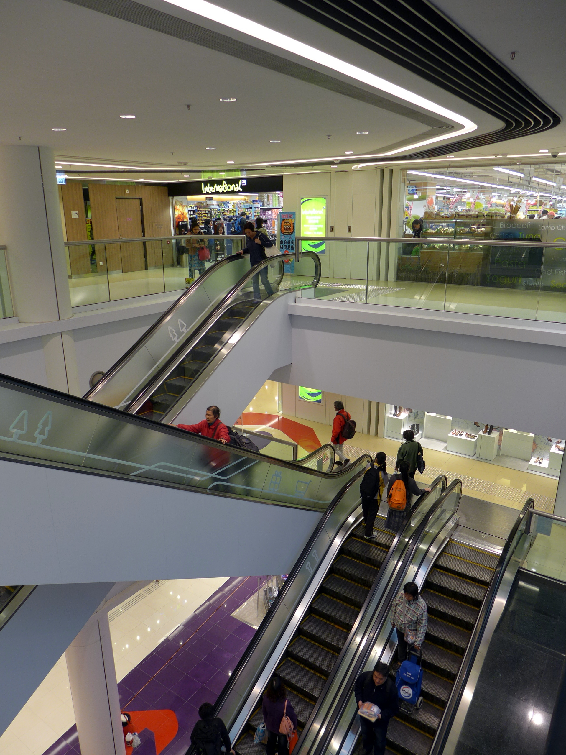 On Ting Estate New Wing Atrium